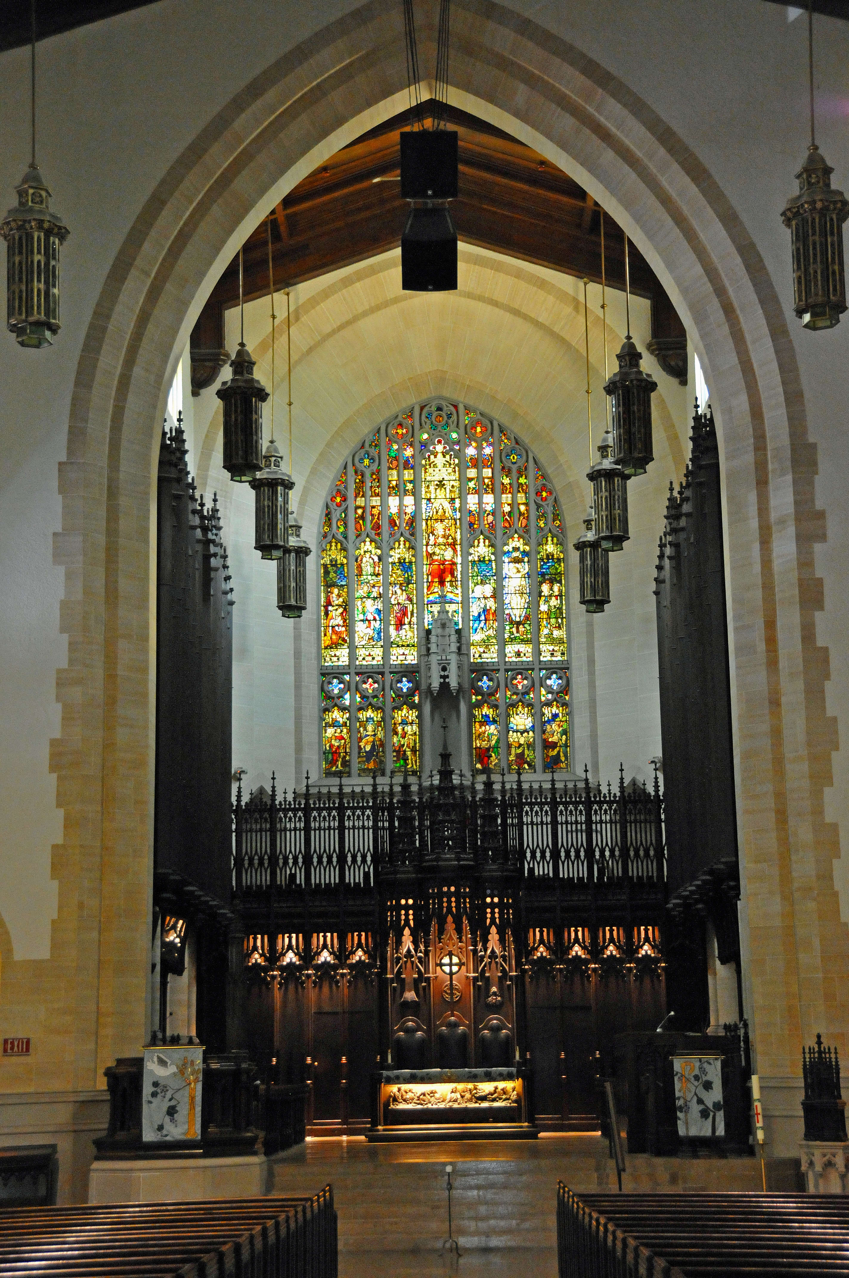 Metropolitan United Church - The cornerstone was laid in 1870 and the church was dedicated in 1872. It replaced an earlier structure at the southeast corner of Adelaide and Toronto Streets. The inaugural service of the Methodist Church of Canada was held here September 16, 1874. The church was badly damaged by fire in 1928 and rebuilt, incorporating most of the original walls, tower, narthex and much of the stained glass. Toronto, Ontario, Canada